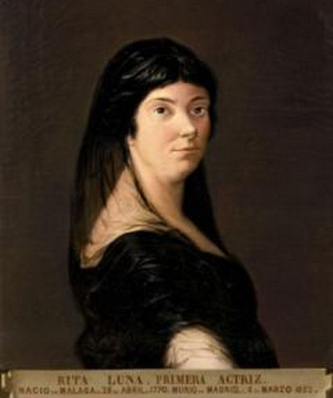 Portrait of Rita Luna, actress born in Málaga ca. 1770.